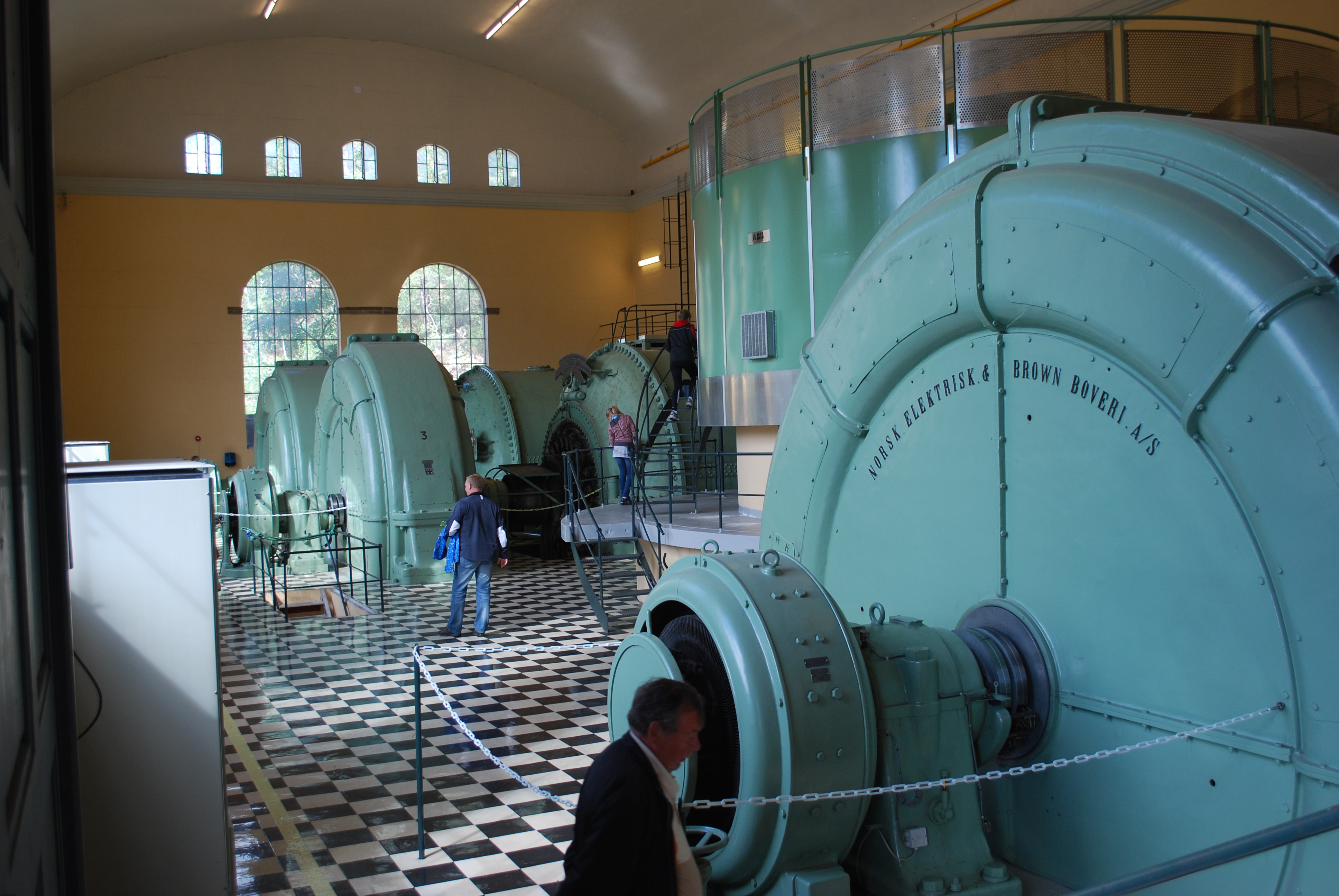 Homeland Power Station